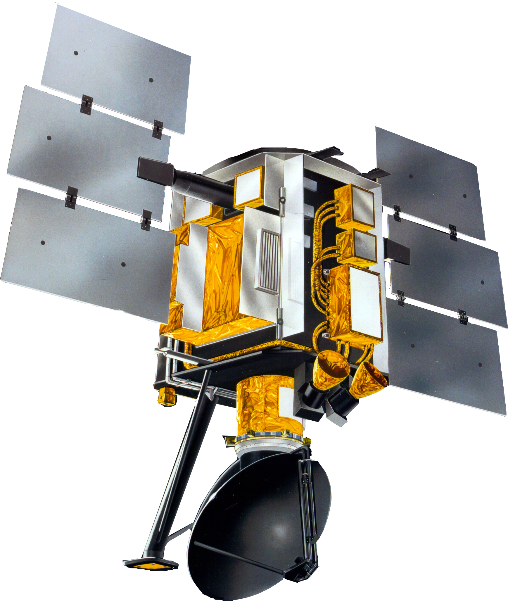 Image of the QuikSCAT spacecraft with transparent background.